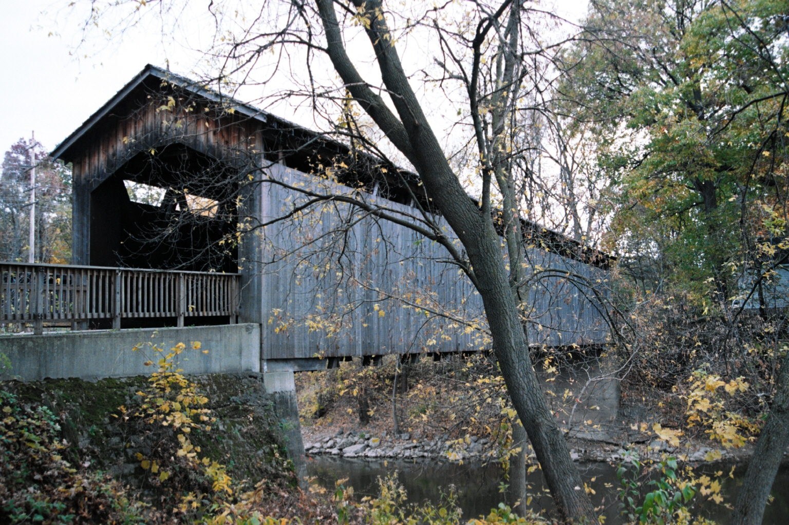 The Ada Covered Bridge in Ada Township, Michigan, USA.